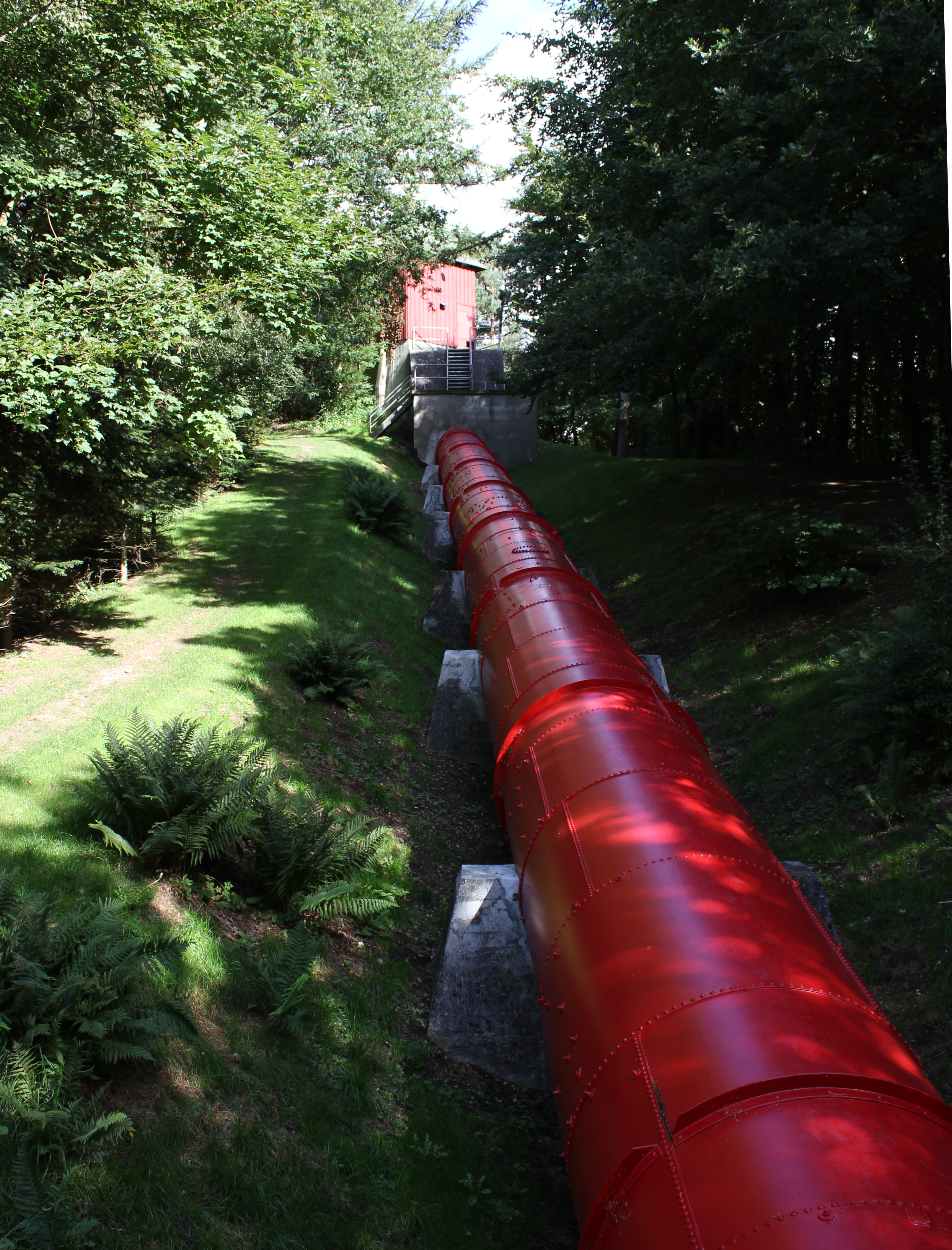 Harteværket is a hydroelectric plant in Harte,Kolding, which was built in the years 1918-1920 and is Denmark's first major hydroelectric plant. Harteværket started towards the end of the first World War, in order to meet the growing need for electricity. The architect was Ernst Petersen and construction workers employed around 350 workers. The water for the plant comes from Donssøerne, which was formed by the damming up Vester Nebel stream and Alminde stream. The water is running from Donssøerne down to the plant's turbines through channels and a 80 meter long tube with a decrease of 25.4 meters. Flowing 6,000 liters of water through the pipes every second. After the natural recreation of Vester Nebel stream in 2008, the water supply to Harteværket was reduced by 60%, but still produced electricity. Harteværket, which today serves as a working museum. The original turbines from 1920 produces 1.8 kWh. hour, depending on the amount of water. In 1992, it supplied about 1% of the electricity consumption in Kolding. Most of the equipment inside, is from the time it was buildt.